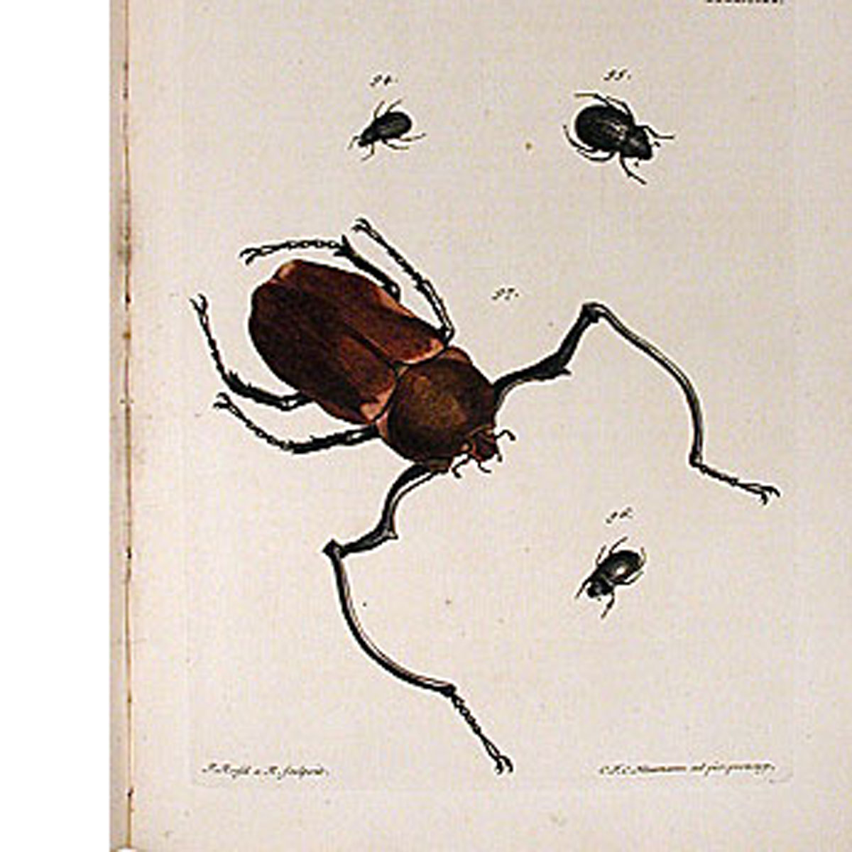 plate from 1765 Johann Eusebius Voet Catalogus Systematicus Coleopterorum